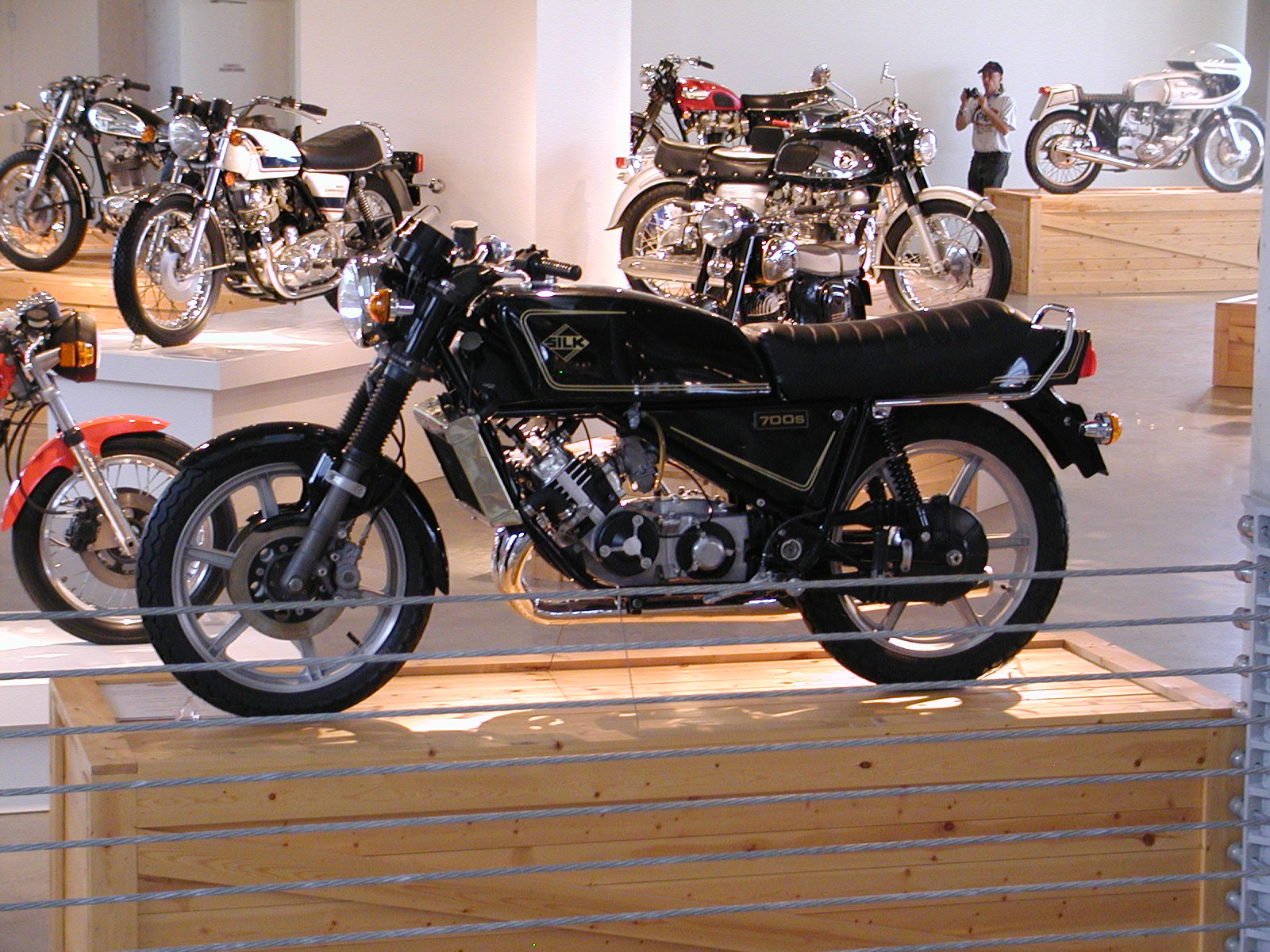 Barber Motorcycle Museum - Oct 22 2006 (555) SILK 700S